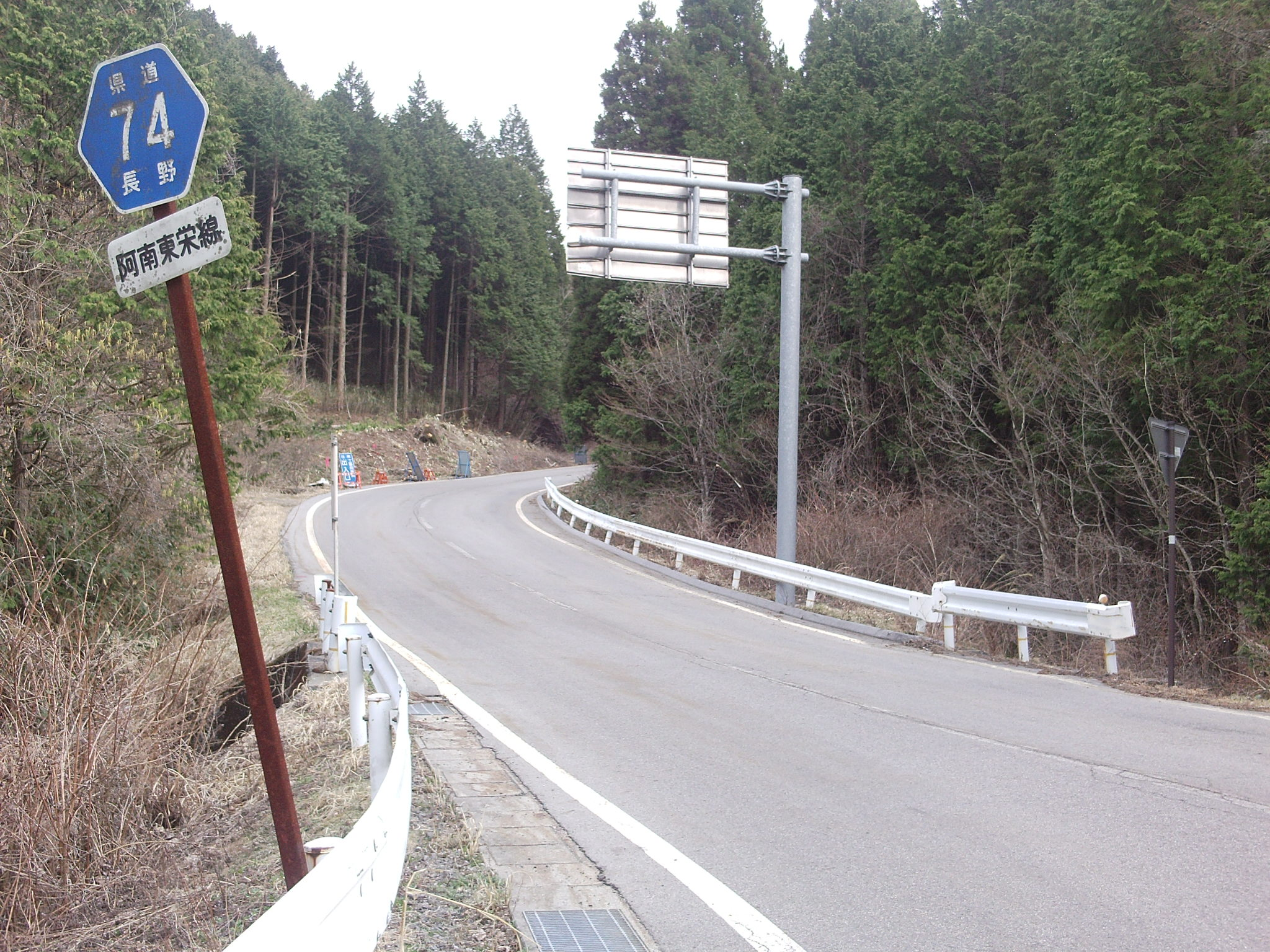 Aichi prefectural road No.74 in Niino, Anan-cho, Shimoina-gun, Nagano.